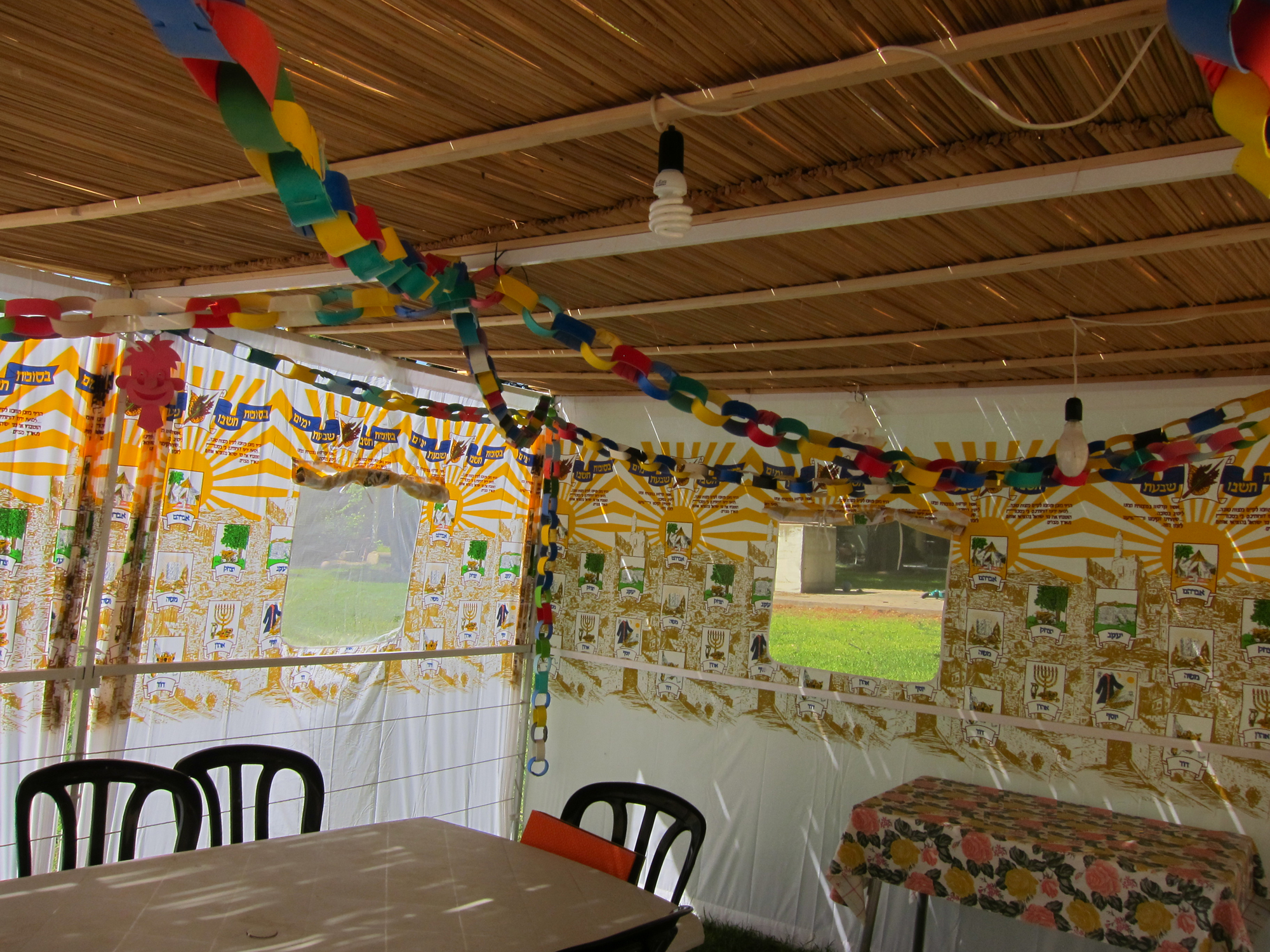 a decorated jewish sukkah in Ein HaNatziv, a look from the inside